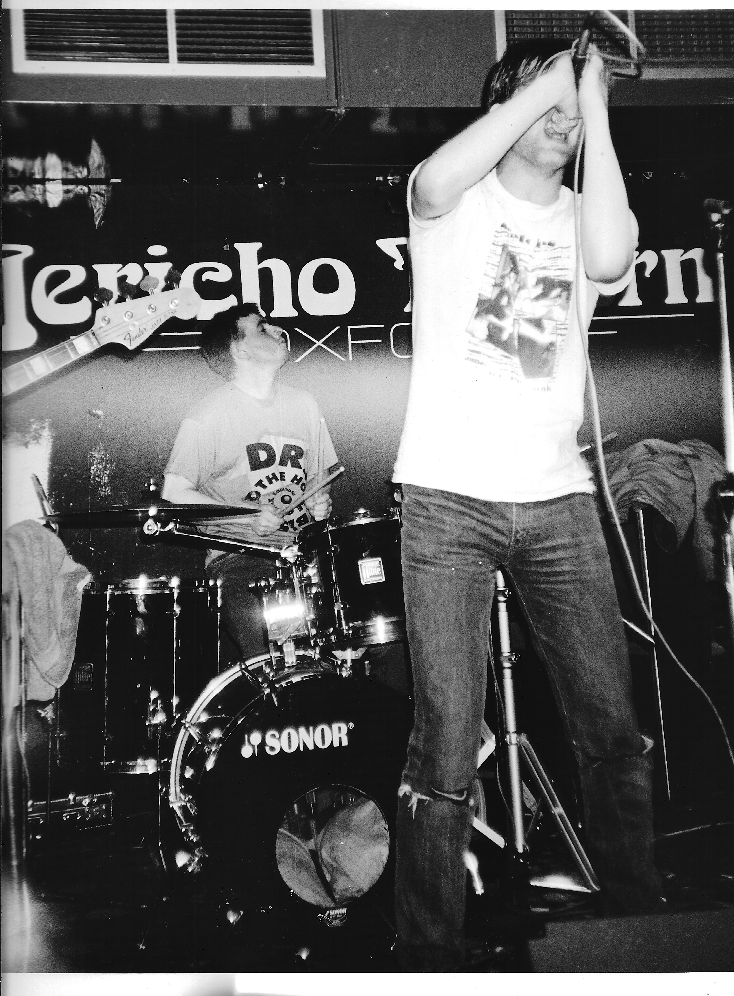 Walkingseeds, Jericho Tavern, Oxford, 1989 Oxford Gig photos 1989-90. Includes Ride, Carter, the Shamen, Mega City Four Neate photos facebook page. More neate photos.